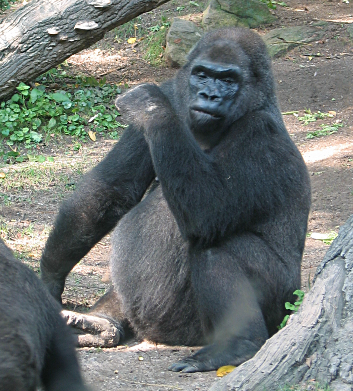 Pattycake the gorilla in Bronx Zoo. Identified from white patch on wrist and facial features.[1][2]